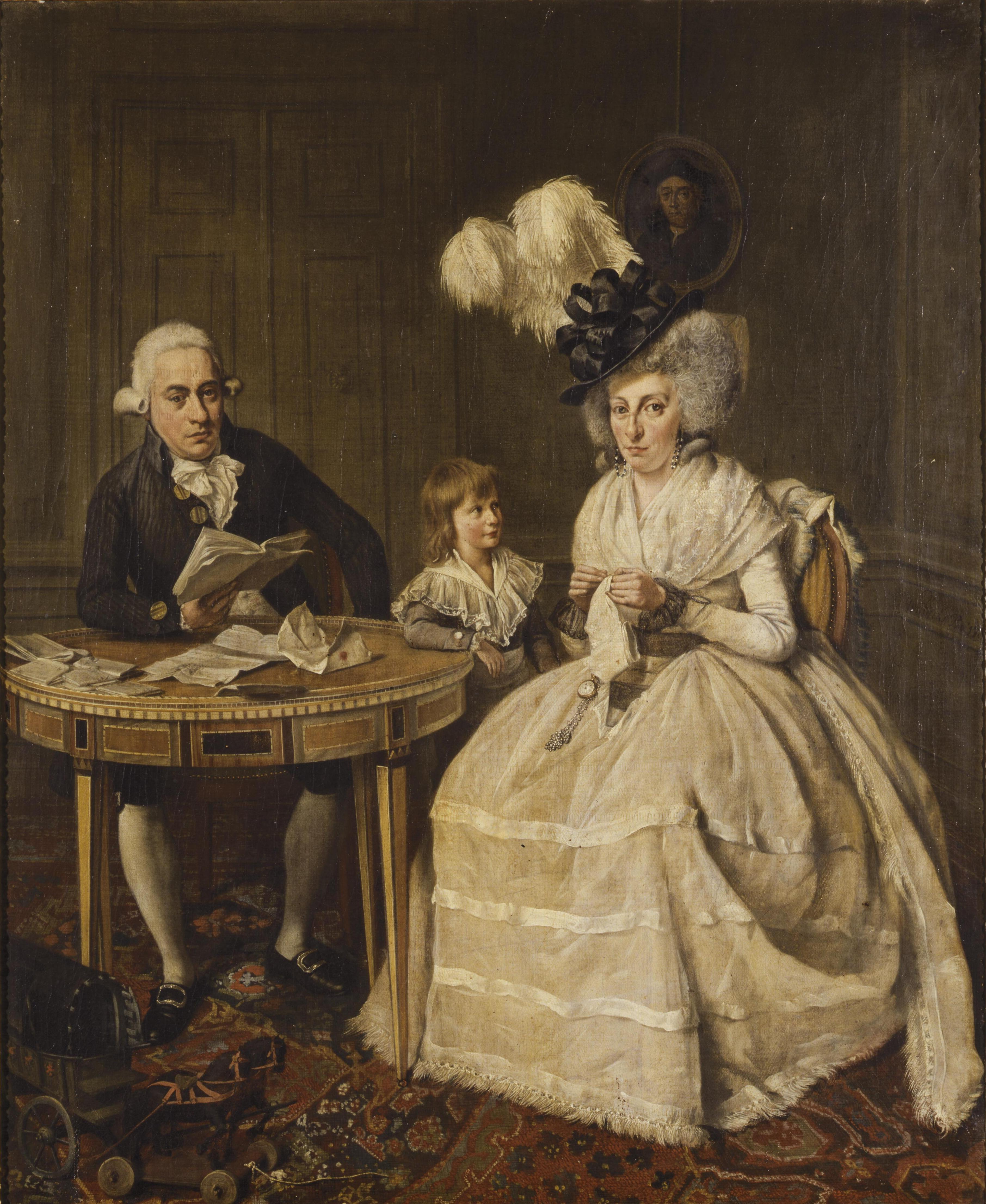 Portrait of Johannes Enschedé jr. with his wife Johanna Swaving and their son Johannes Enschedé III, by Wybrand Hendriks in 1796.